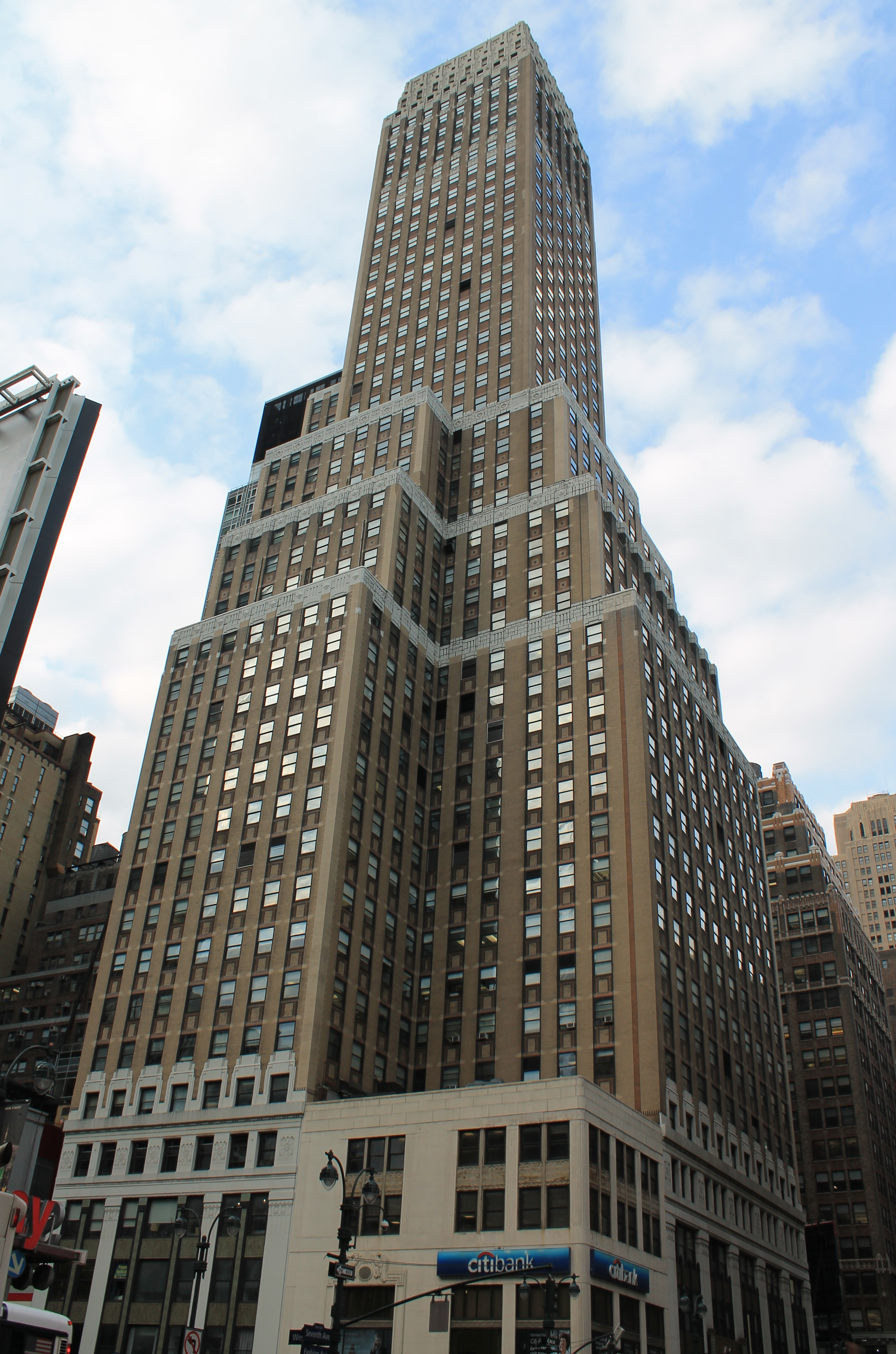 Nelson Tower seen on 28 March 2017.